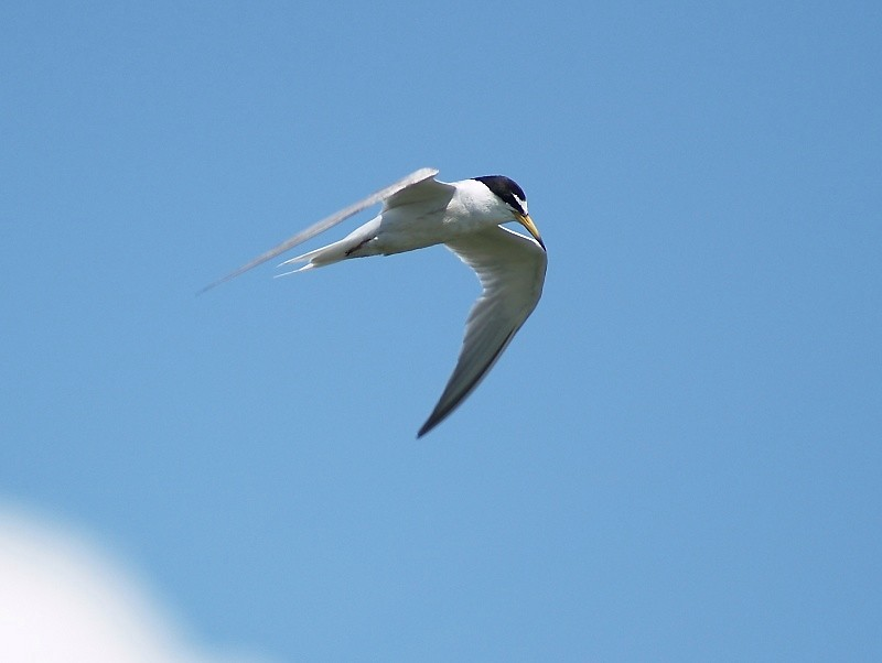 Sternula albifrons （小燕鷗）, Changhua County, Taiwan, 2007.